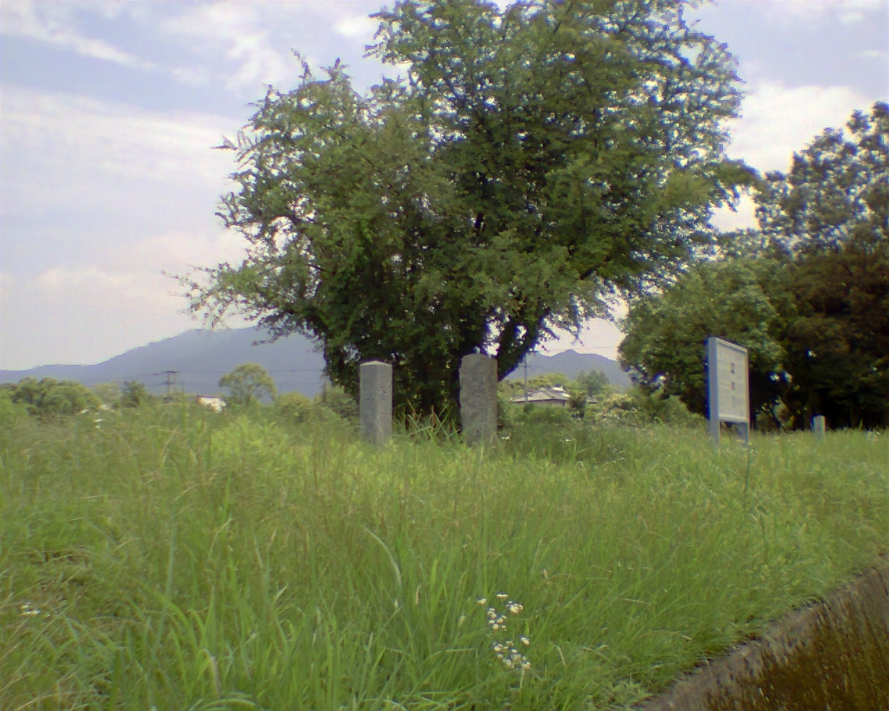 This photograph is the ancient ruins named Gakkouin Ruins (ja : 学校院跡) which in the Dazaifu city, Fukuoka prefecture, Japan.Gakkouin, the training school of local government officials, was established here in Dazaifu, corresponding to Daigaku in the ancient capital of Nara.Students at the age of 15 or 16 started to learn writing politics, medical science and arithmetic etc.with the textbooks introduced from China.